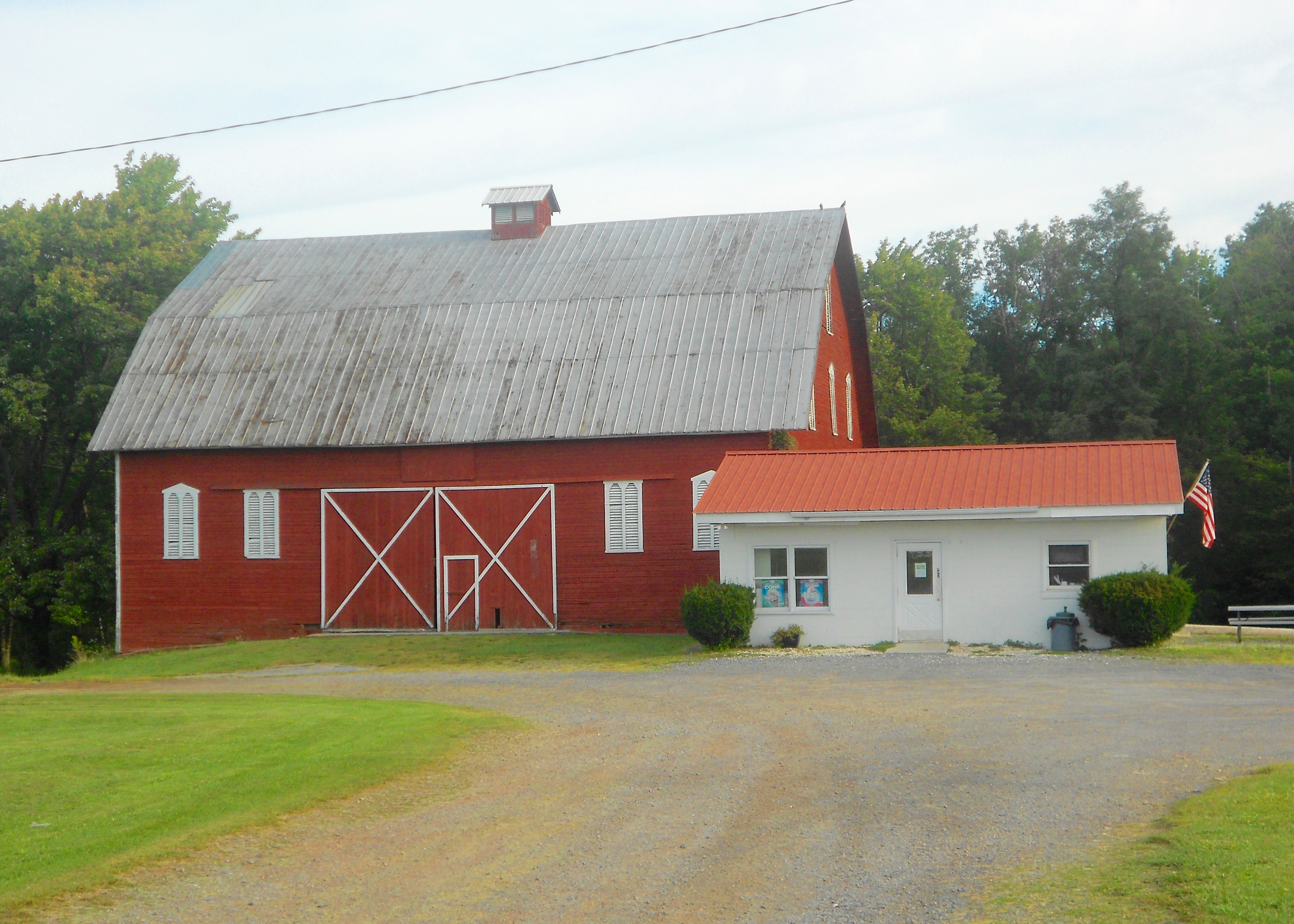 Barn and ice cream shop (the concrete block building) in Snow Shoe Township, Centre County, Pennsylvania. It is near the entrance to Interstate 80